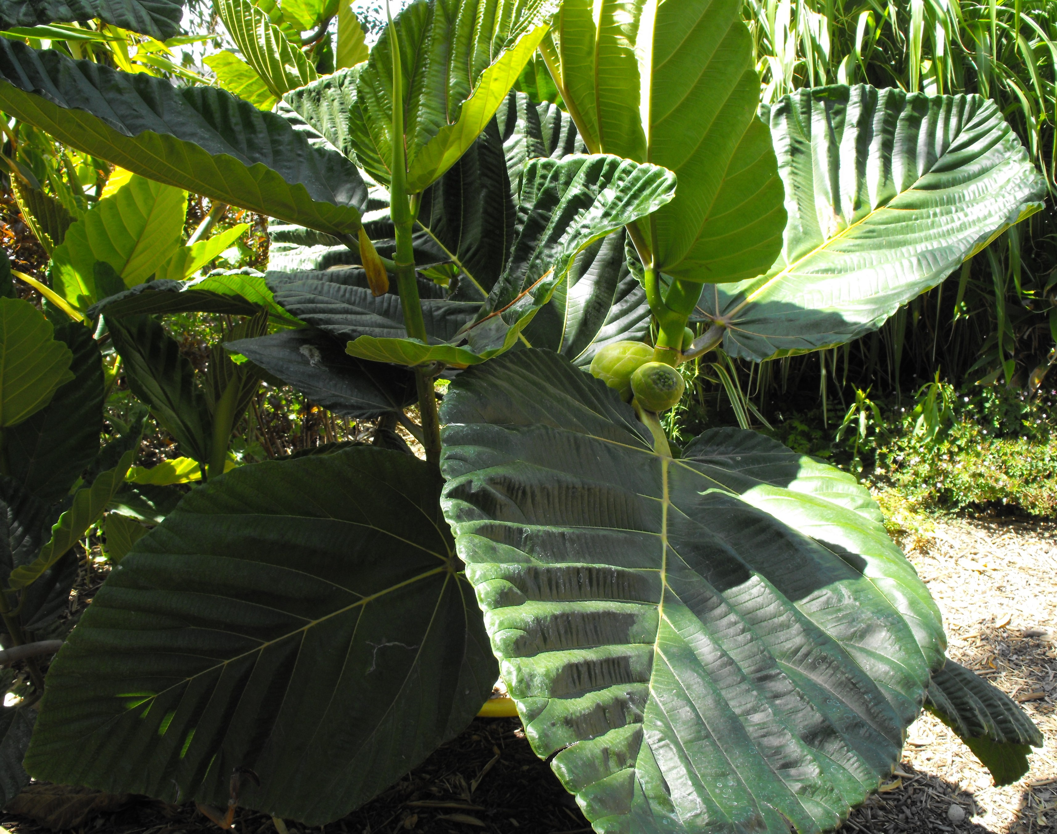 Ficus dammaropsis. At the San Diego Botanic Garden (formerly Quail Botanical Gardens) in Encinitas, California.